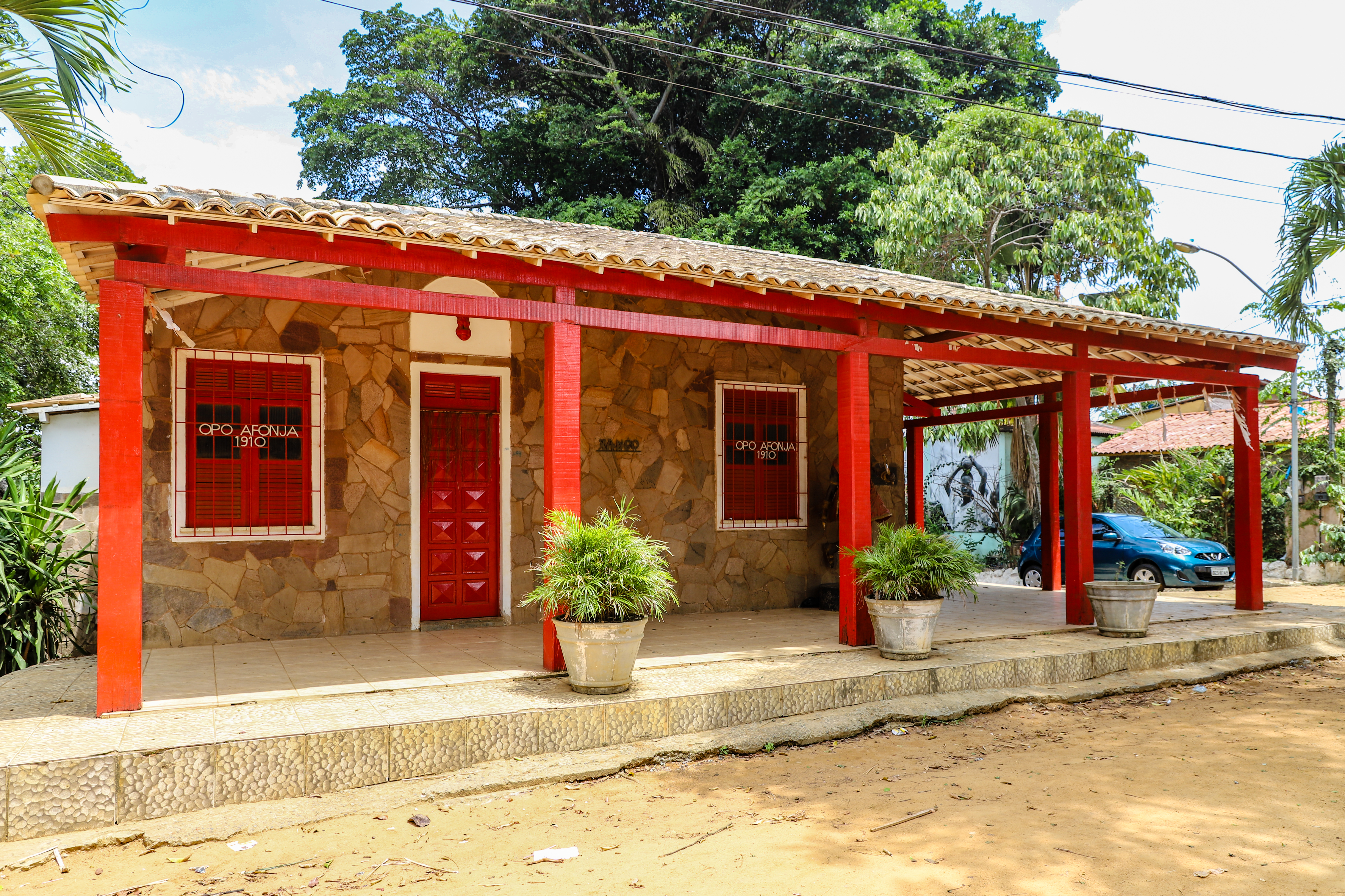 Casa de Xangô, Ilê Axé Opô Afonjá, Salvador, Bahia, Brazil.